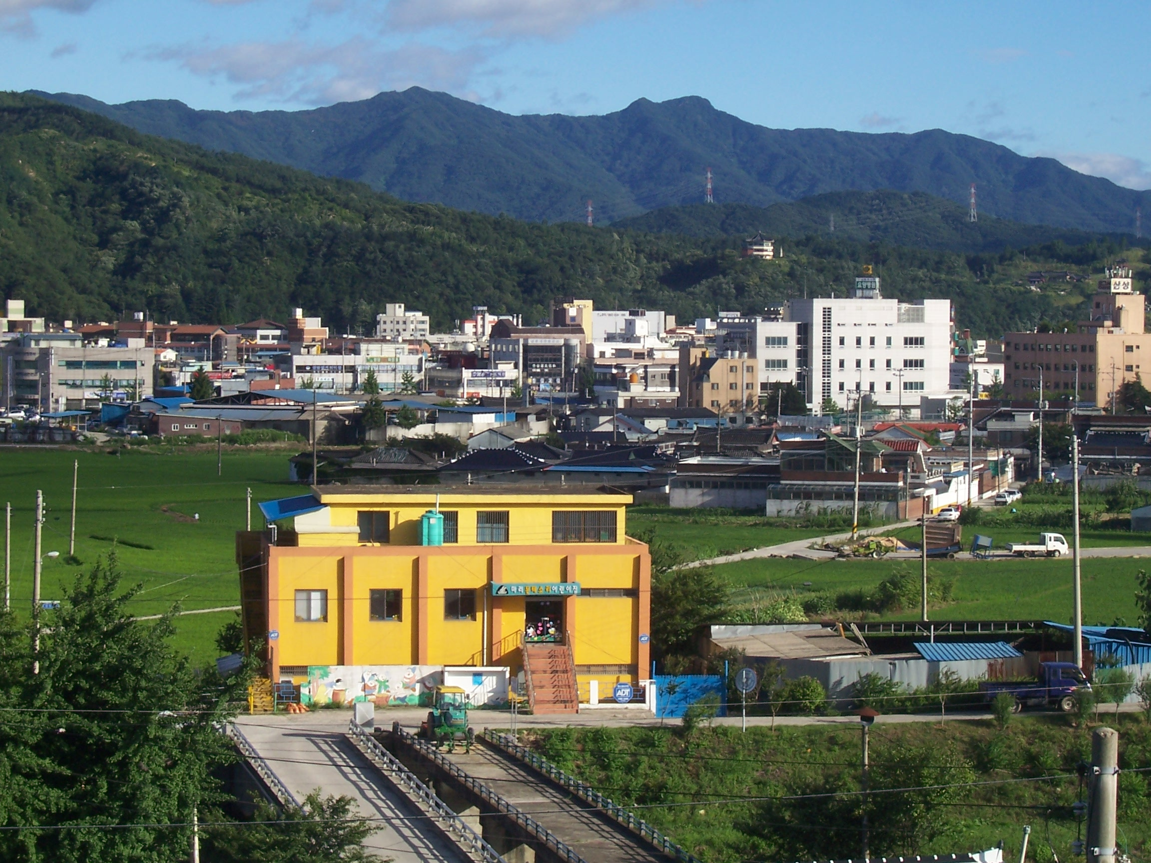 Outskirts of Namwon